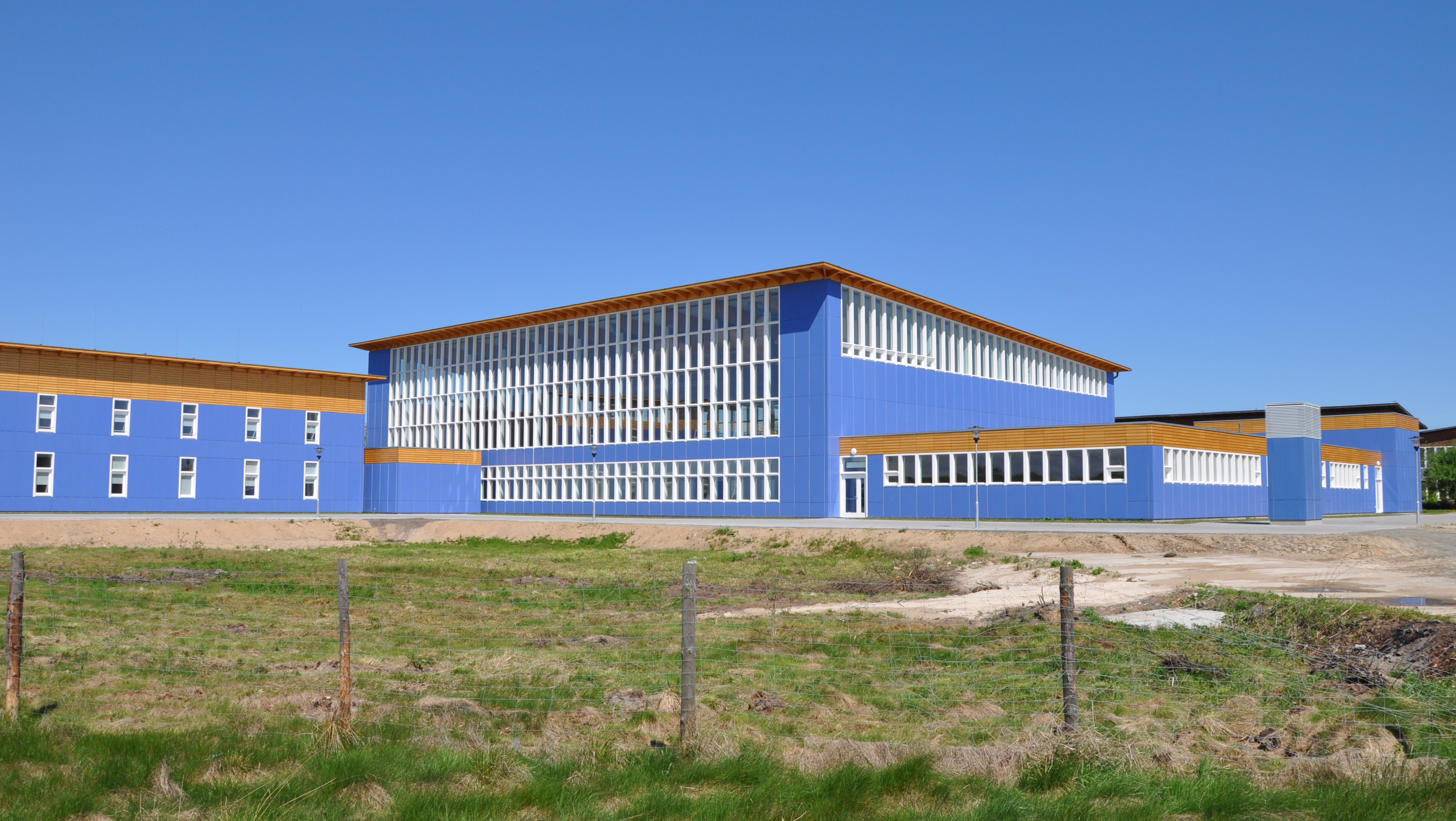 Sports hall in Mrzeżyno, Poland